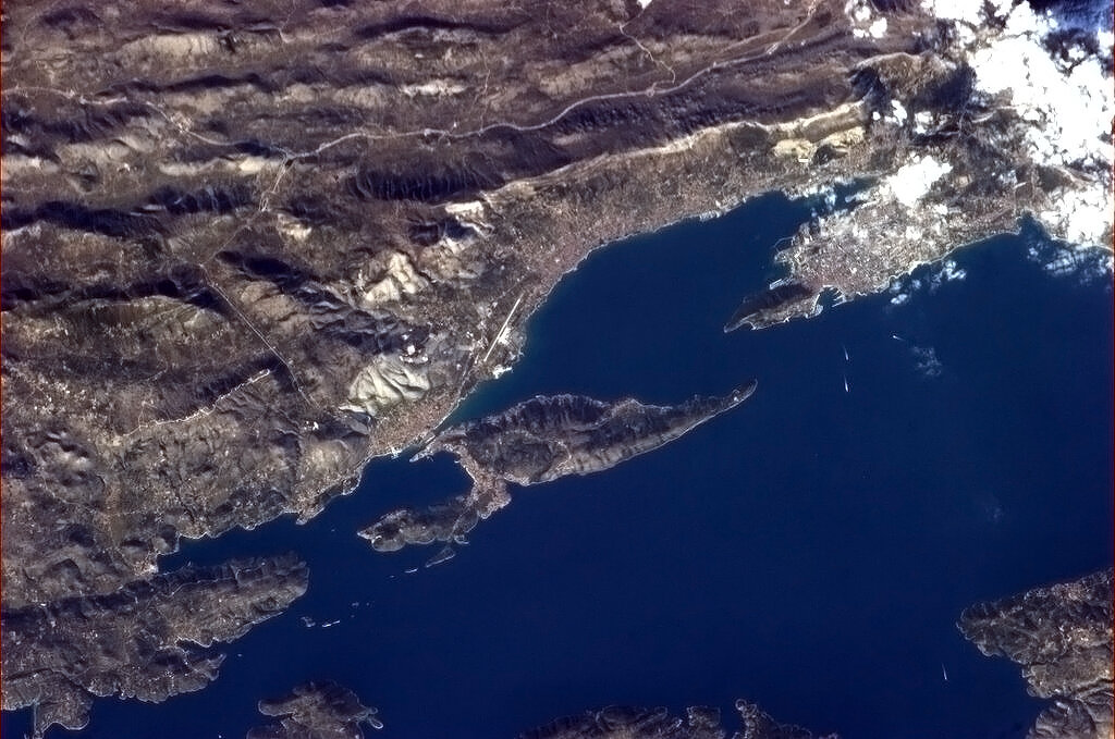 Split pictured from the ISS